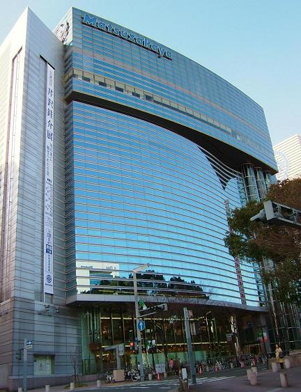 Taken from Hisaya-Odori park, Nagoya.